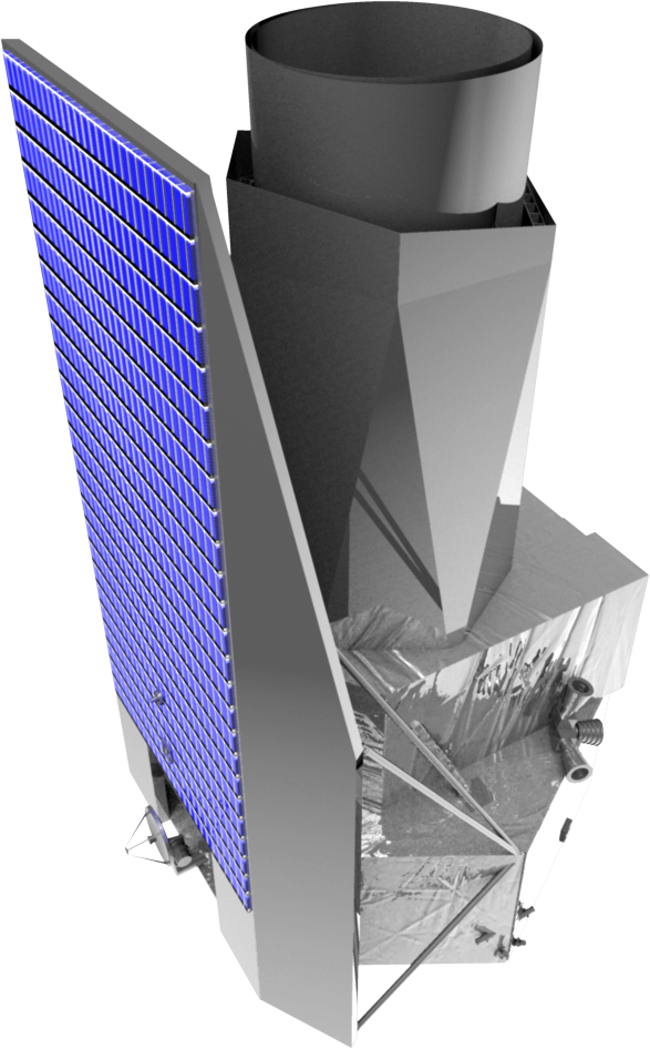 Artist's concept of the Euclid spacecraft.